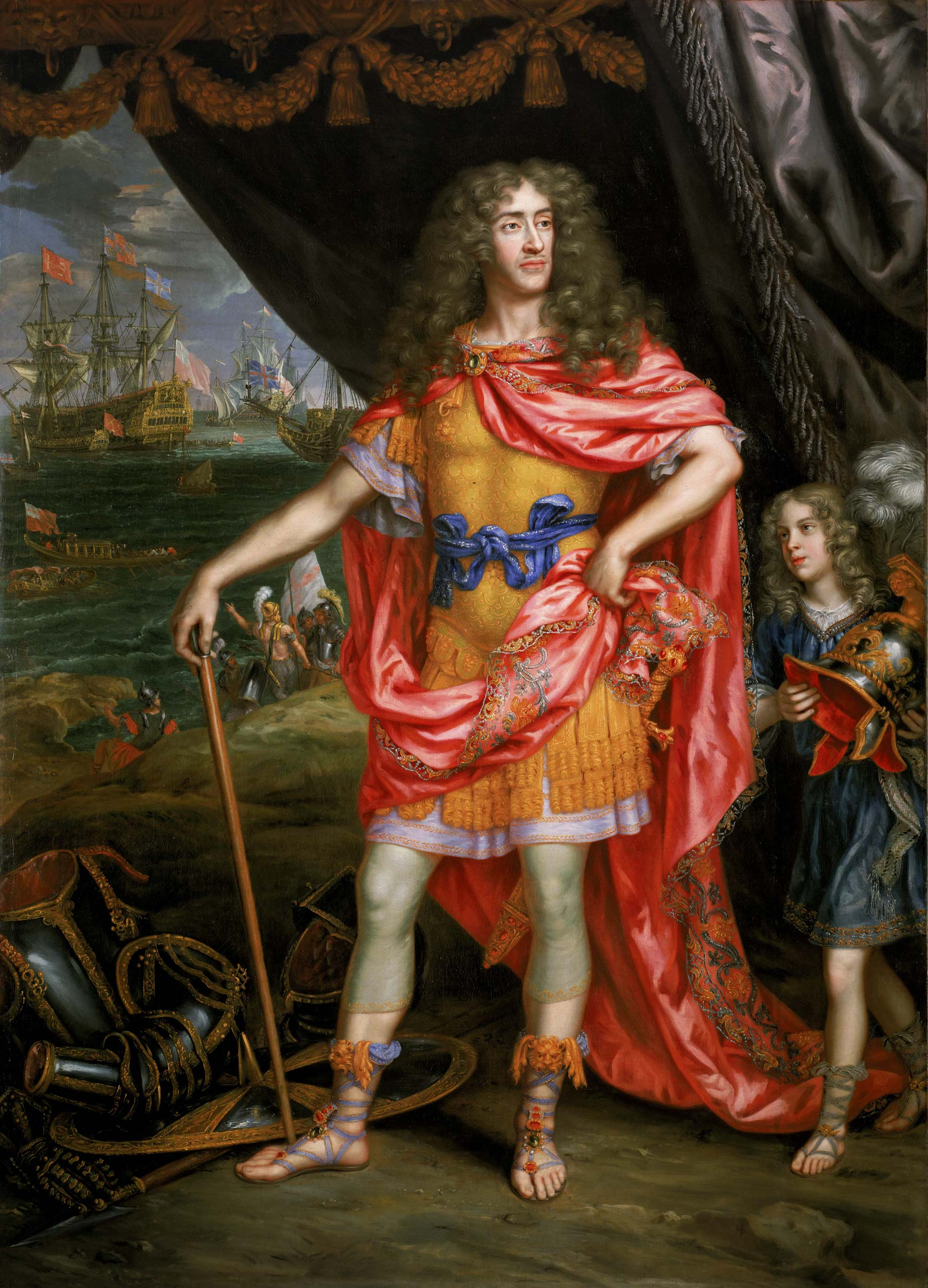 He is dressed in this painting in allegorical Romanesque costume. Note the silver and gold embroidery on the cloak and the metal lace. Caption from the museum's website A full-length highly coloured Baroque portrait of James II in a Romanesque costume representing Mars, the God of War. He wears a brown full-bottomed wig, and gold armour of lapped plates and tassels. He also wears green three-quarter length hose and jewelled sandals, cross-gartered to lion mask tops. His right hand rests on a stick, his left on his hip clutching an embroidered red silk cloak that is fastened with a jewel on his right shoulder. He stands in a pavilion, delineated by red swags at the top and grey silk tasselled drapes to the right. The Duke's flagship the 'Royal Prince', 100 guns, prominently lies at anchor. Its flags signify a royal visit to the fleet in late 1672-73, with the Admiralty flag at the fore, the Royal Standard at the main, and the Union flag at the mizzen. Normally the Duke of York would only have flown the Royal Standard at the fore. The yacht, 'Anne', lies alongside, flying the Admiralty as an ensign. The Duke of York was in personal command of the fleet at the victory over the Dutch off Lowestoft in 1665 and again at the Battle of Solebay in 1672, which this portrait may commemorate. A small barge flying the red ensign is broadside in the foreground, with another small craft in front. On the right a page, traditionally thought to be the Duke of Marlborough or a member of the Cabal, is dressed in a similar manner and holds a plumed helmet of Franco-Roman design. There is a more detailed description of this painting contained within the 'Notebook' field within the 'Mail' icon.